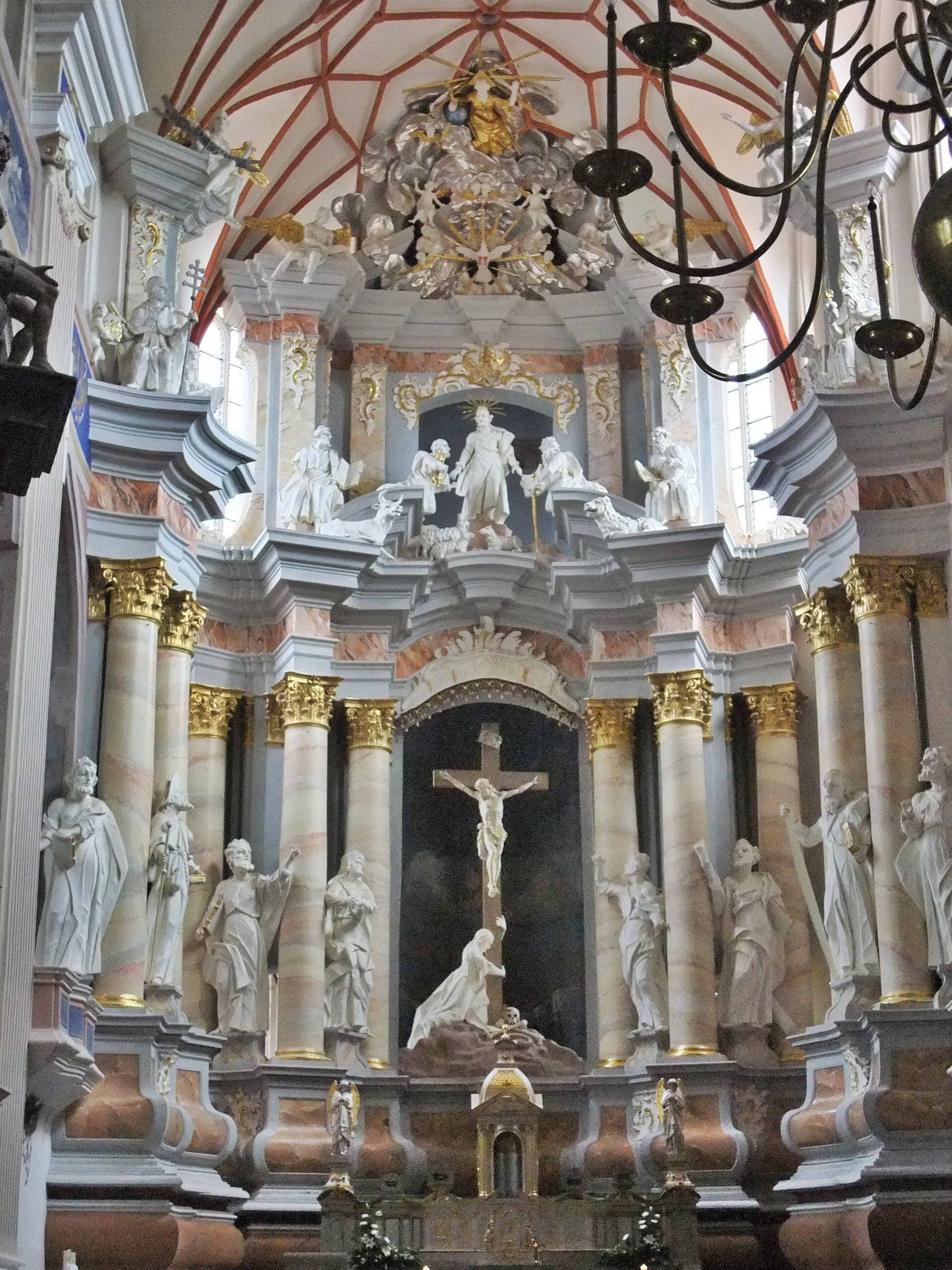 Inside Cathedral Basilica of Kaunas, Lithuania.